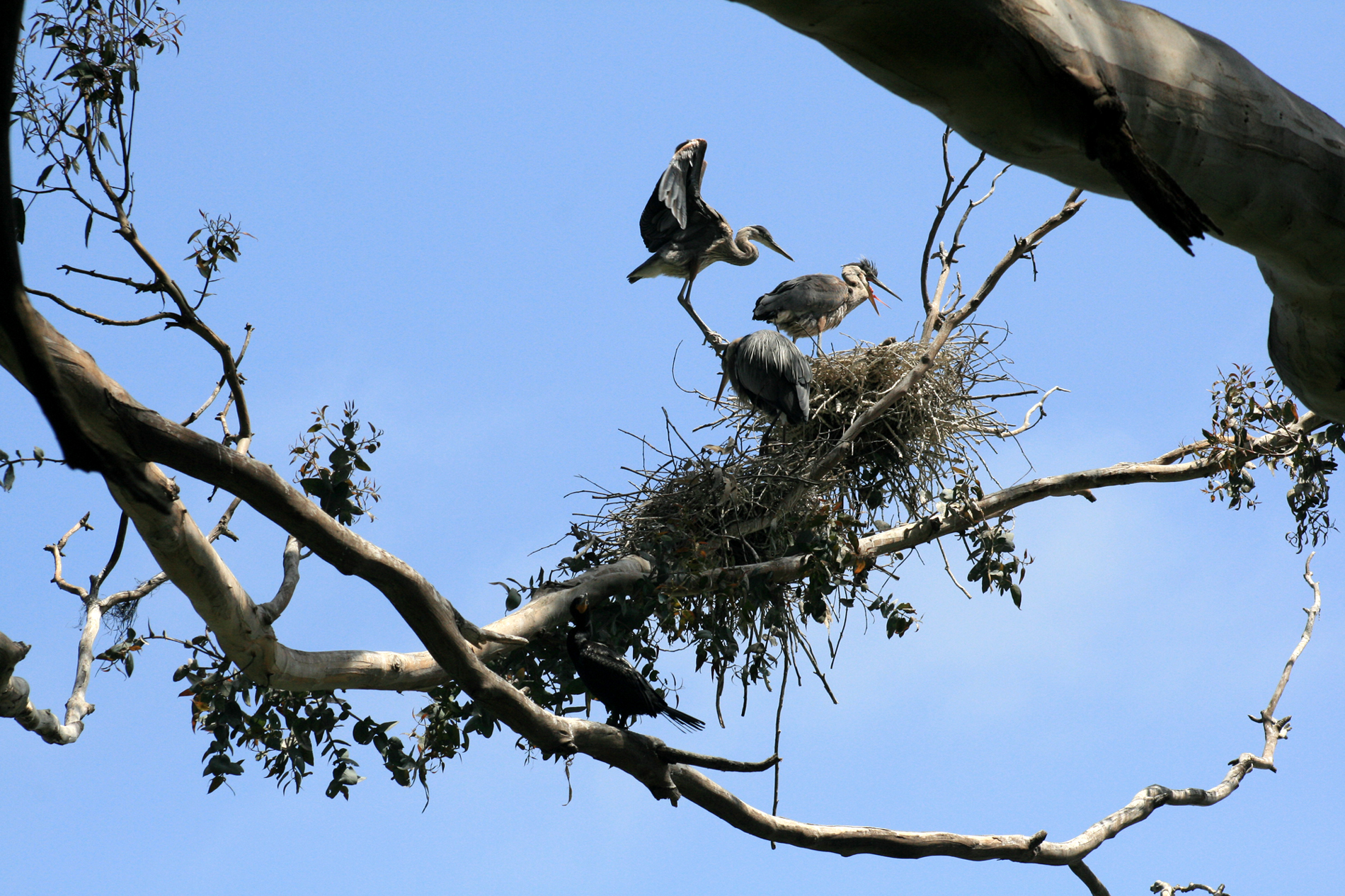 Nest of great blue herons, Ardea herodias. The chick on the right is showing his tongue